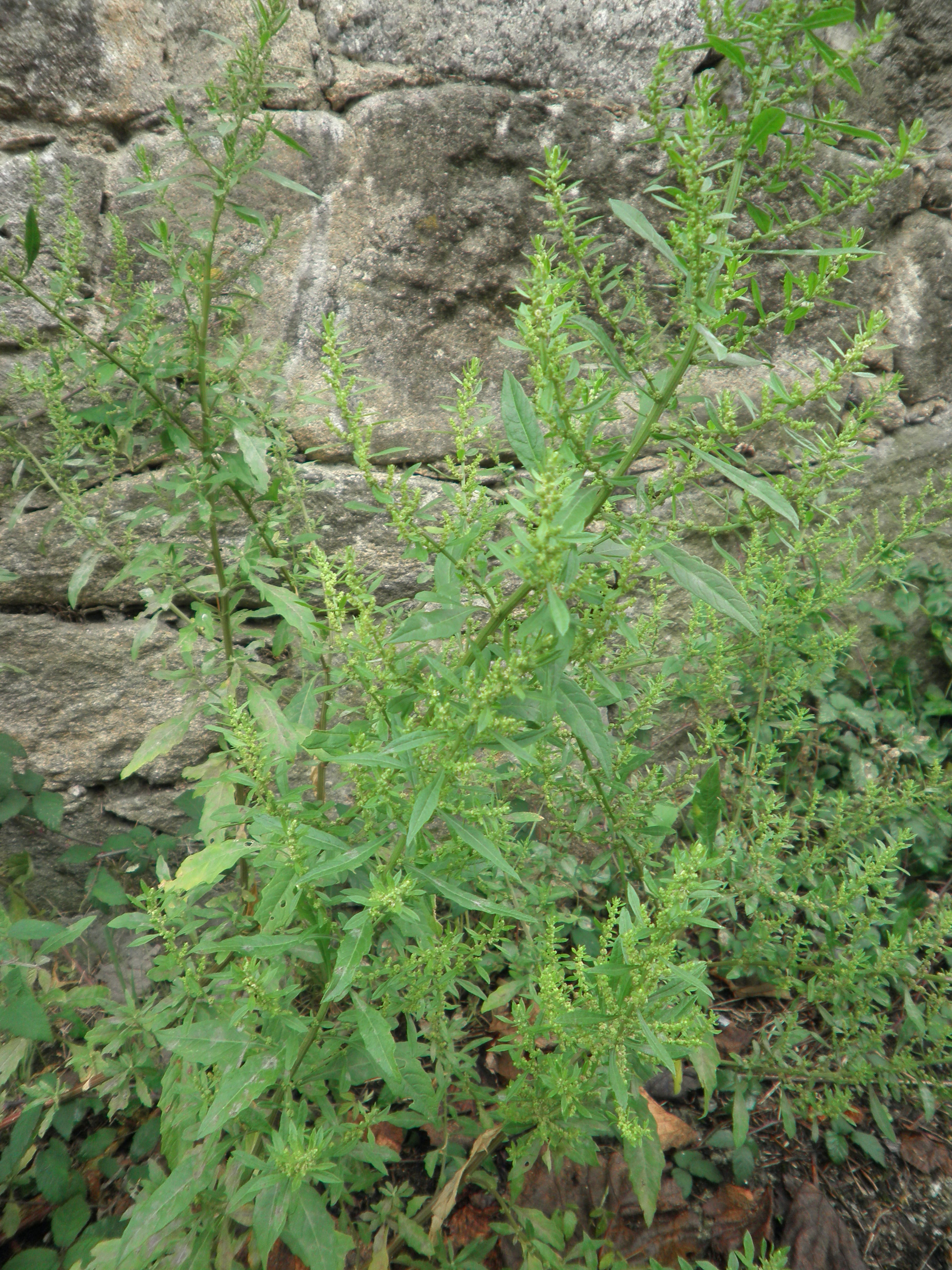 Dysphania ambrosioides